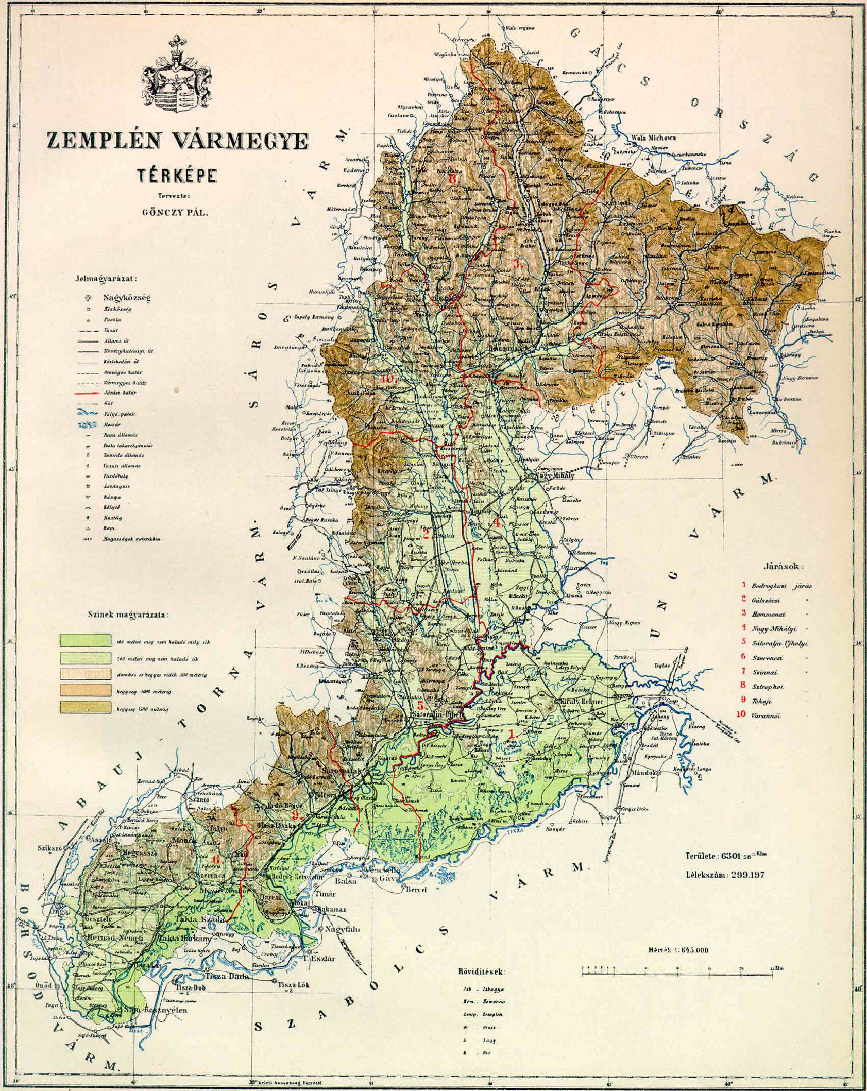 County of Zemplén in the pre-Trianon Kingdom of Hungary. Komitat Zemplén w Królestwie Węgier przed traktatem w Trianon.